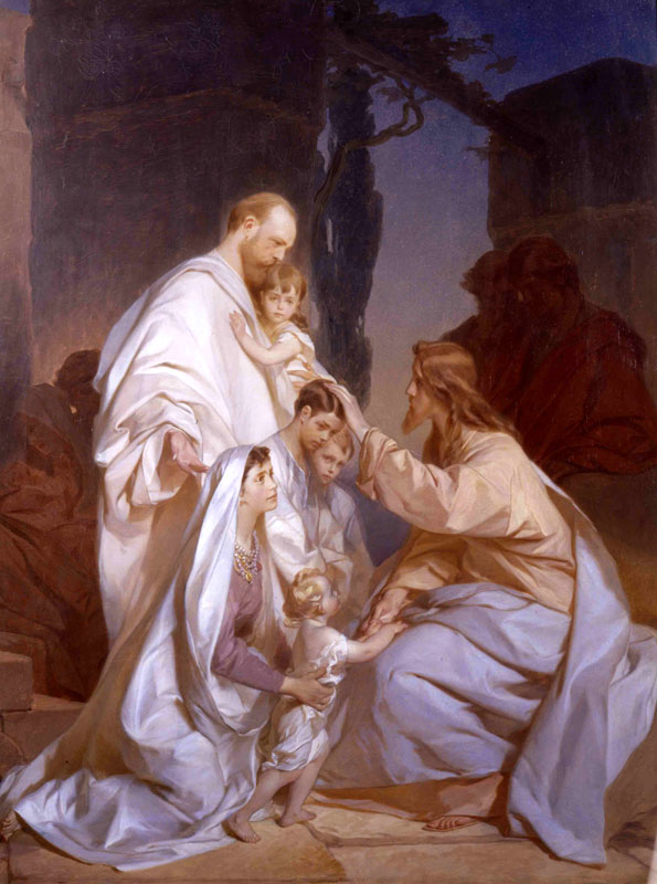 God's blessing on you. The family of Alexander III of Russia before Christ. oil on canvas.